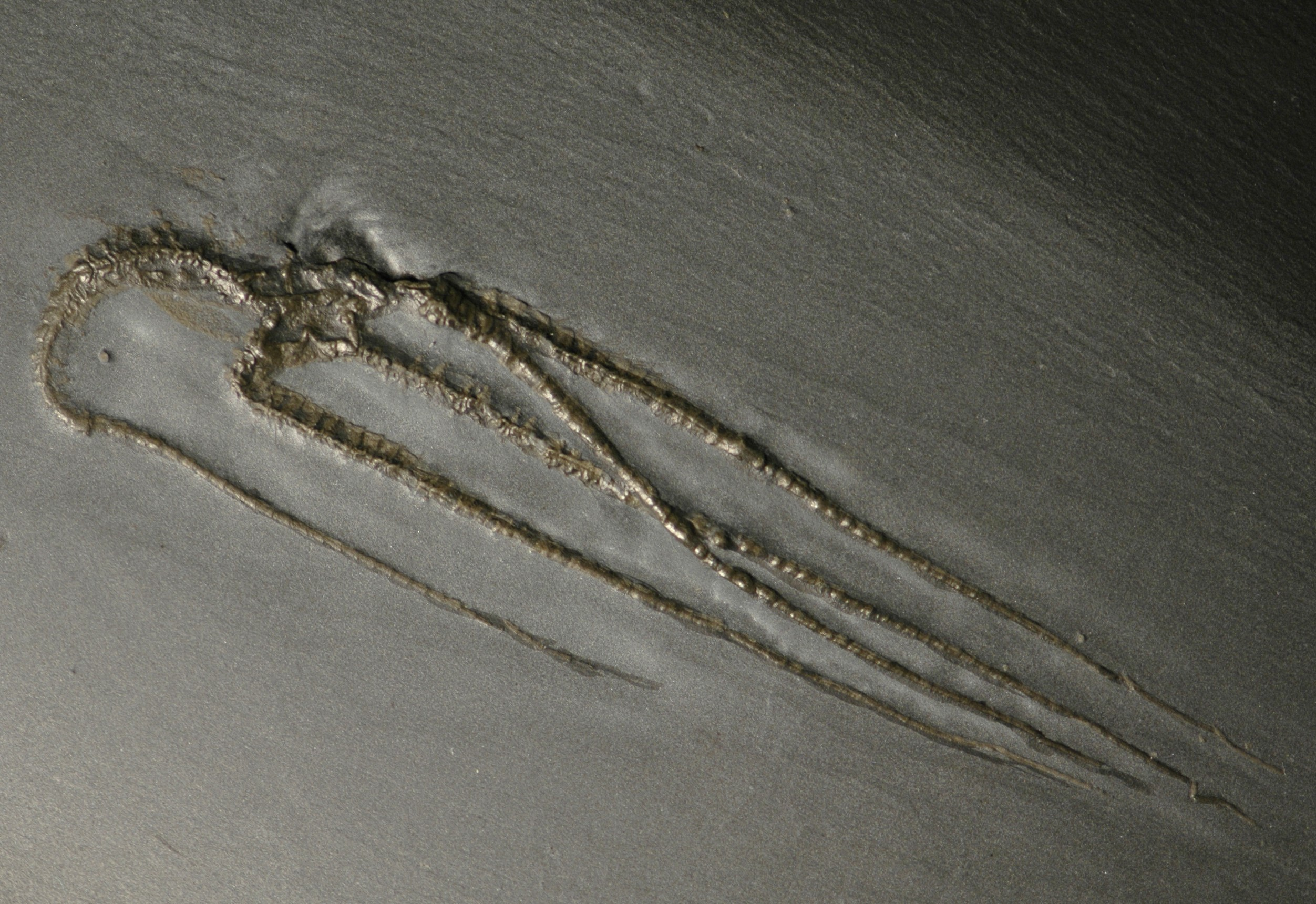 Shown is a pyritized, complete fossil brittle star (ophiuroid) from the Hunsrück. All five arms are bent in the same direction, indicating current direction before final burial. This is a Furcaster paleozoicus brittle star, a species first described by Bernhard Stürtz in 1886.